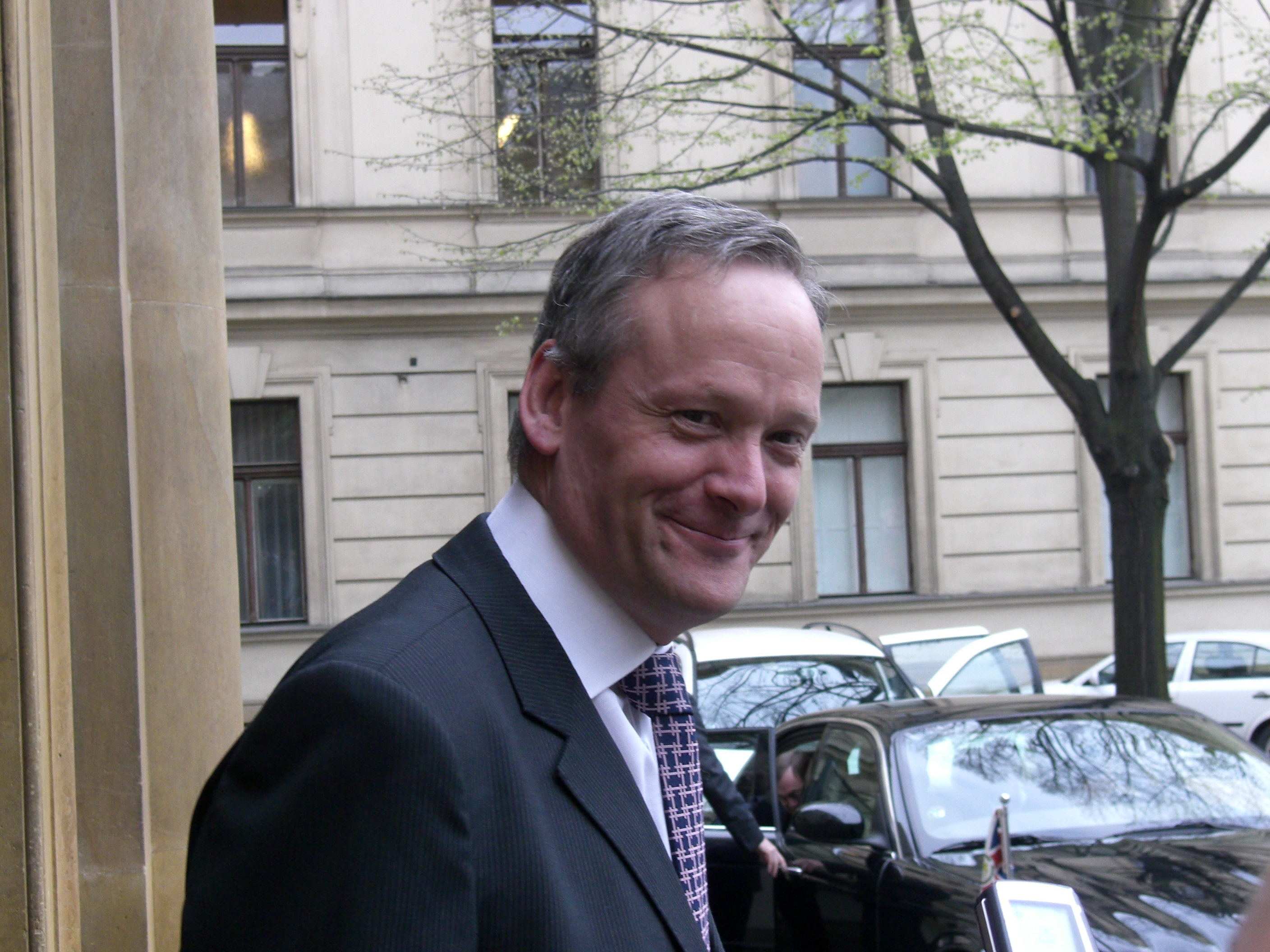 Minister Cyril Svoboda of the czech goverment before session, Czech Republic.